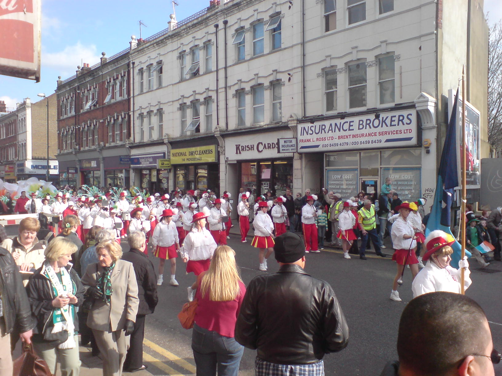 St. Patrick's Day 17 March 2007 in Willesden Green, Northwest London.